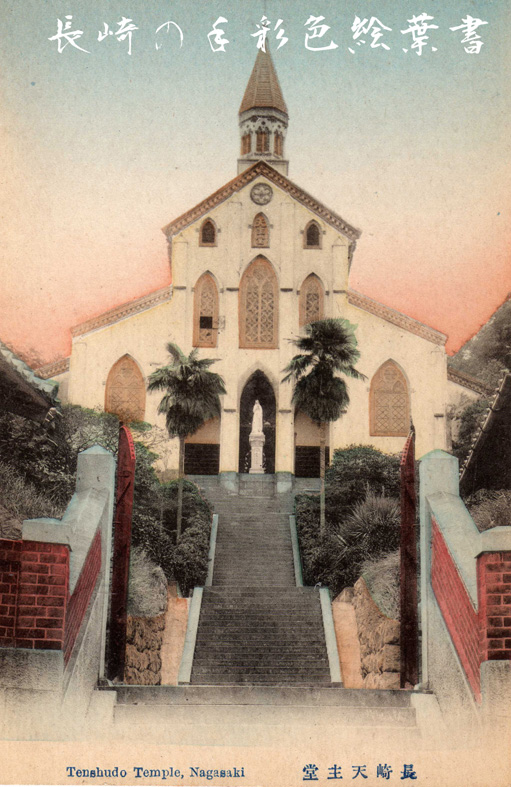 Japanese hand tinted postcard view of the Tenshudo, a Roman Catholic Church in Oura, Nagasaki